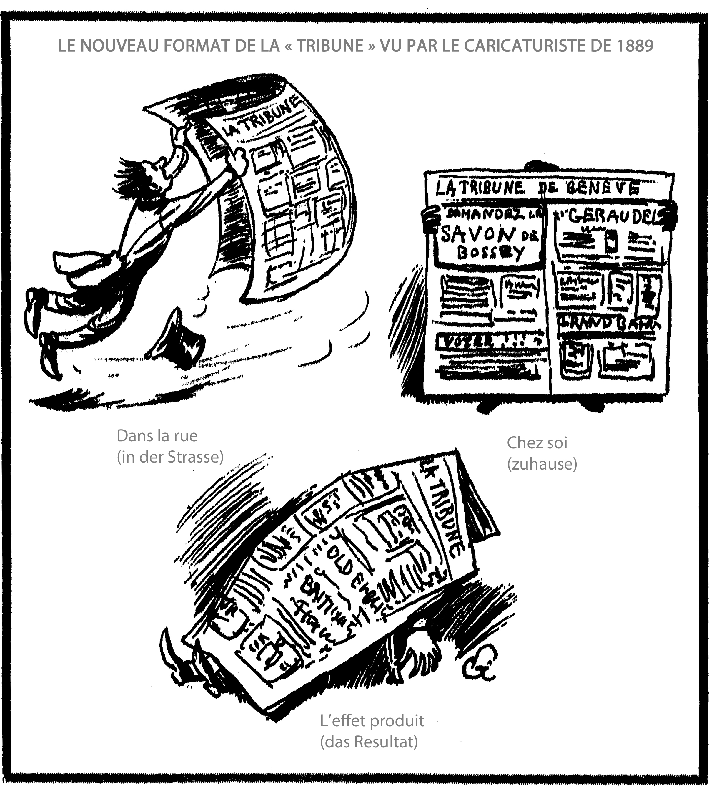 Cartoon big newspaper format of La Tribune de Genève